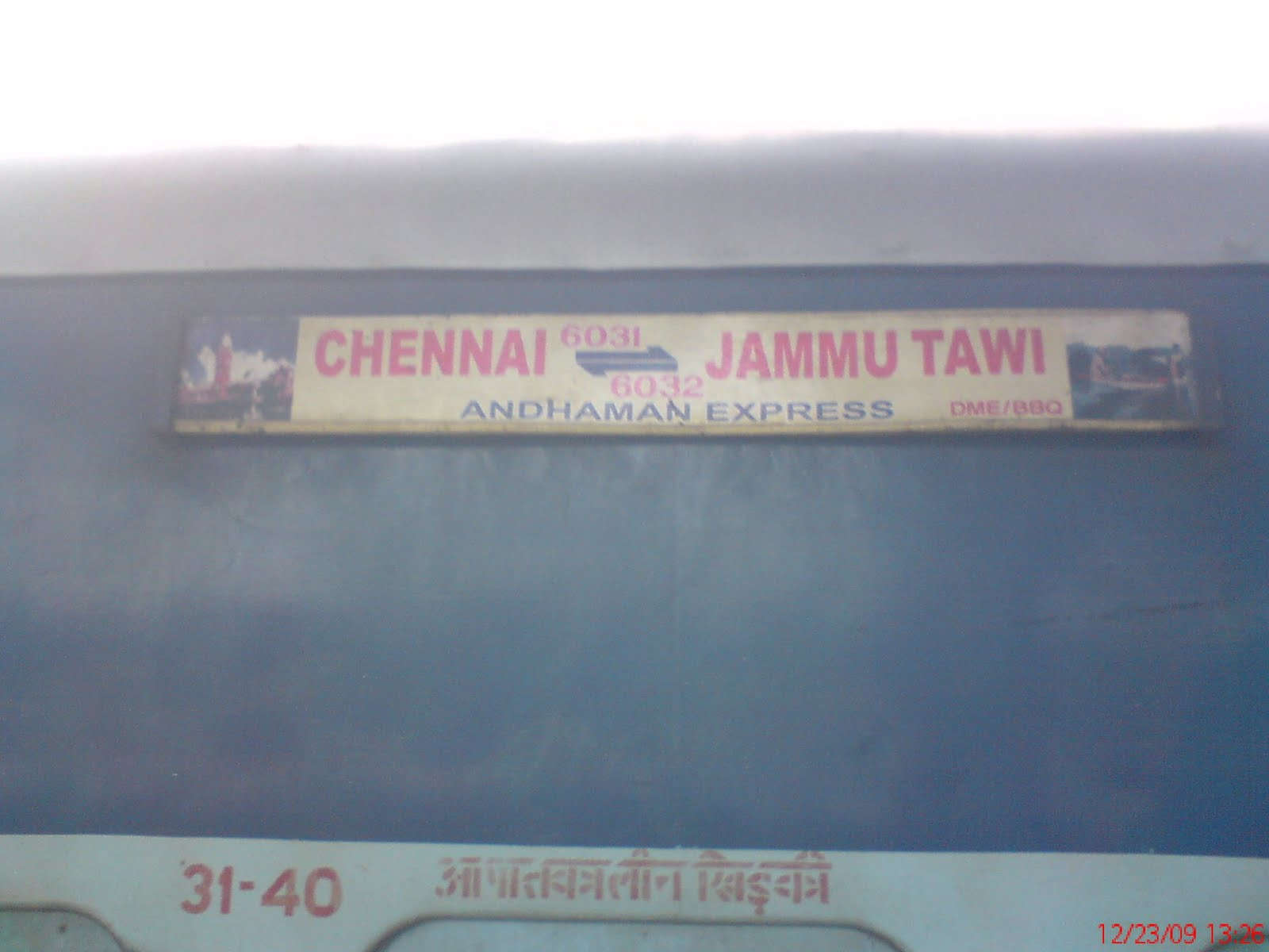 Andaman express from Jammu Tawi to Chennai, at New Delhi railway station